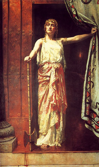 The painting shows the queen Clytemnestra standing, holding the axe with which she killed her husband Agamemnon when he came back from the Trojan war. This is a famous episode from the Greek mythology.